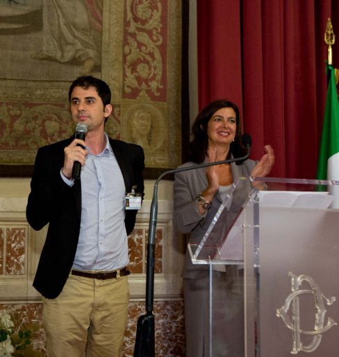 Giuseppe Catozzella Proclamazione Strega